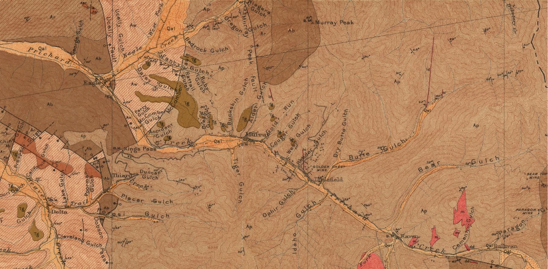 1907 Murray Idaho geologic map, where m is monzonite and syenite, Ap is Prichard Slate, Ab is Burke Formation, Ar is Revett Quartzite, Asr is St. Regis Formation, Aw is Wallace Formation, Asp is Striped Peak Formation, Tg are Tertiary terrace gravels, Qgl is Quaternary glacial deposits, Qal is Quaternary alluvium, x is a prospect pit and y is a tunnel